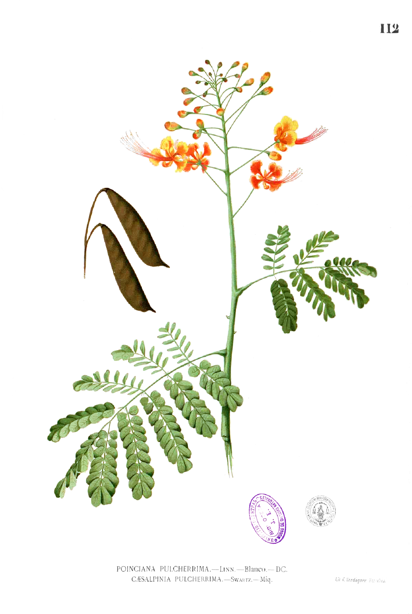 Plate from book